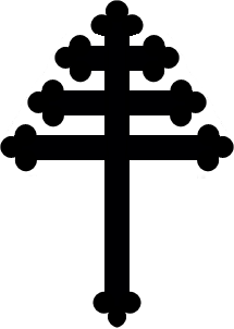 Maronite Cross used by the Syriac Maronite Church